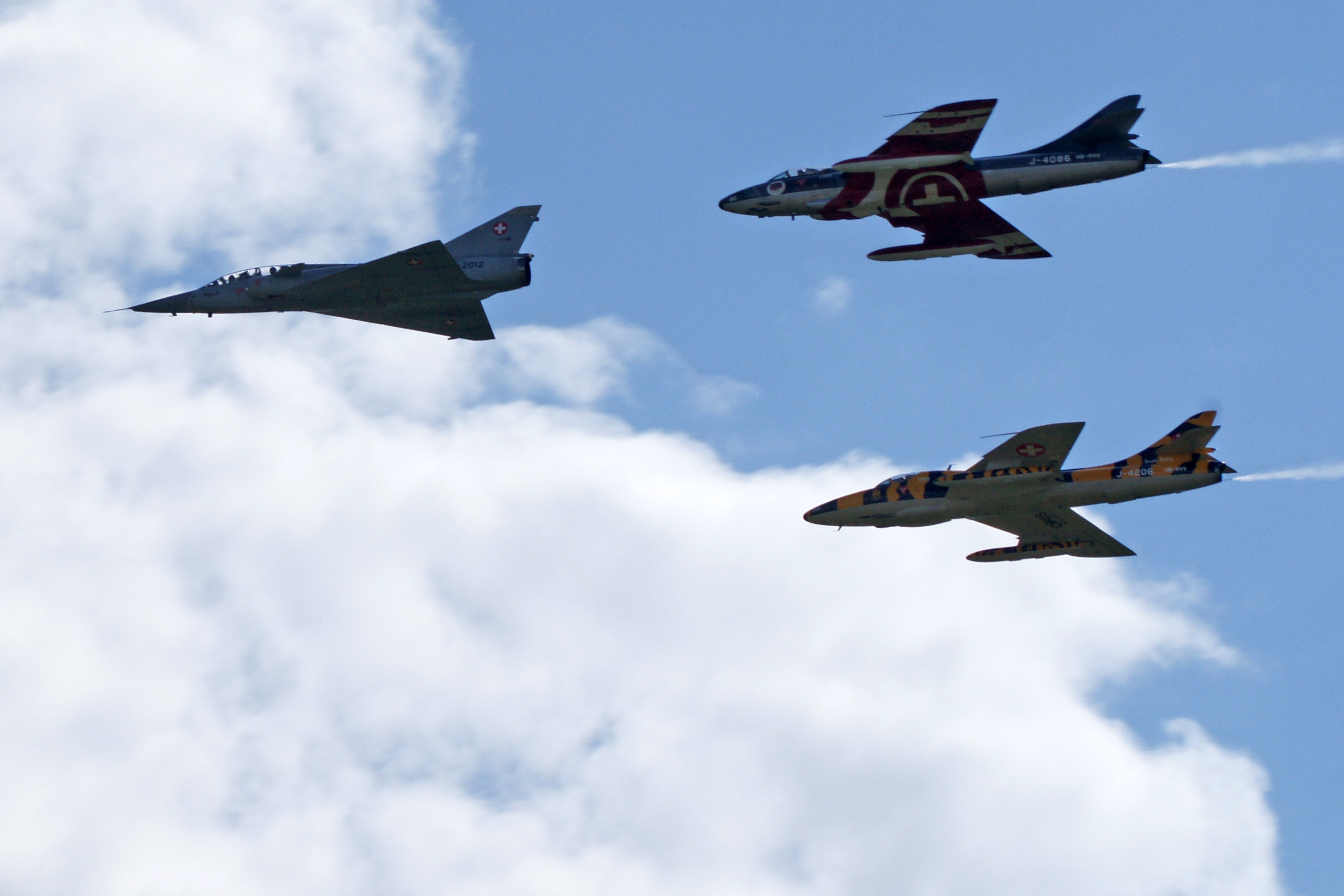 Ex-Swiss Air Force historic jets flying in close formation, IBT'11 air show, Bern-Belp airport: Dassault Mirage III-DS J-2012 (HB-RDF) Hawker Hunter Mk.58 J-4086 (HB-RVU) „Patrouille Suisse Hunter“ Hawker Hunter Mk.68 J-4206 (HB-RVV) „Tiger Hunter“